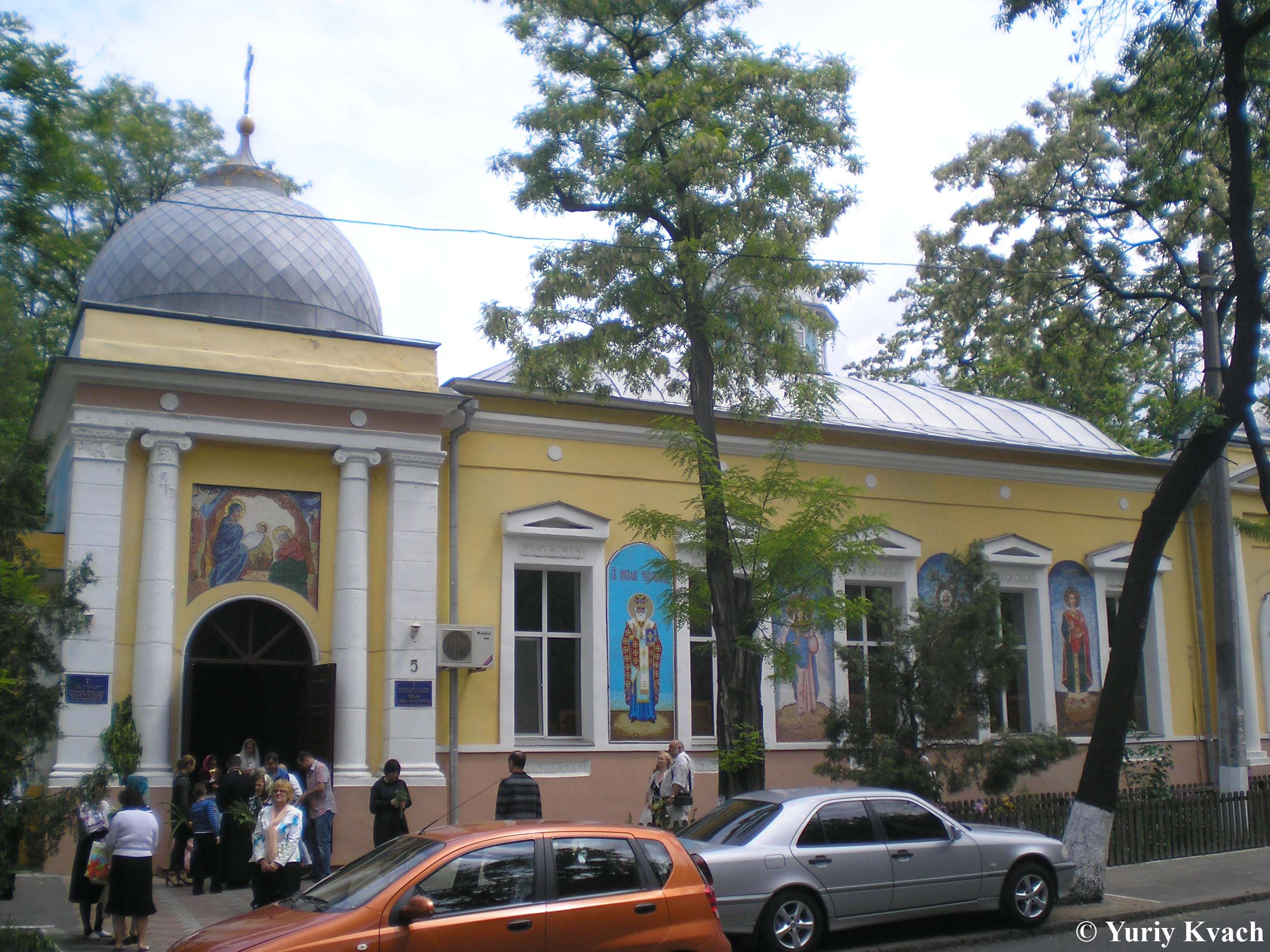 Church-Nativity in Odessa, Ukraine